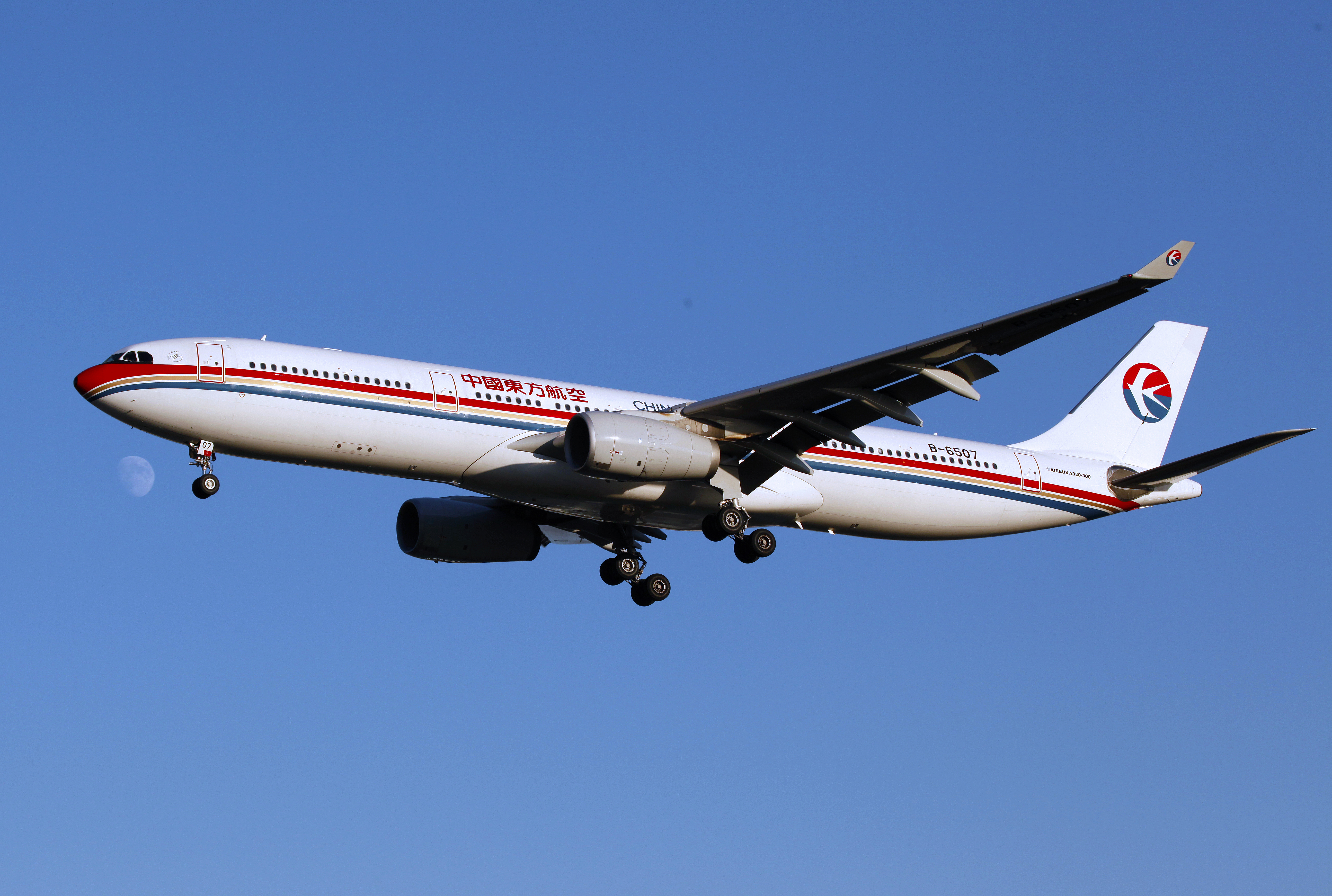 B-6507 | China Eastern Airlines | Airbus A330-343 | Beijing Capital International Airport [PEK]